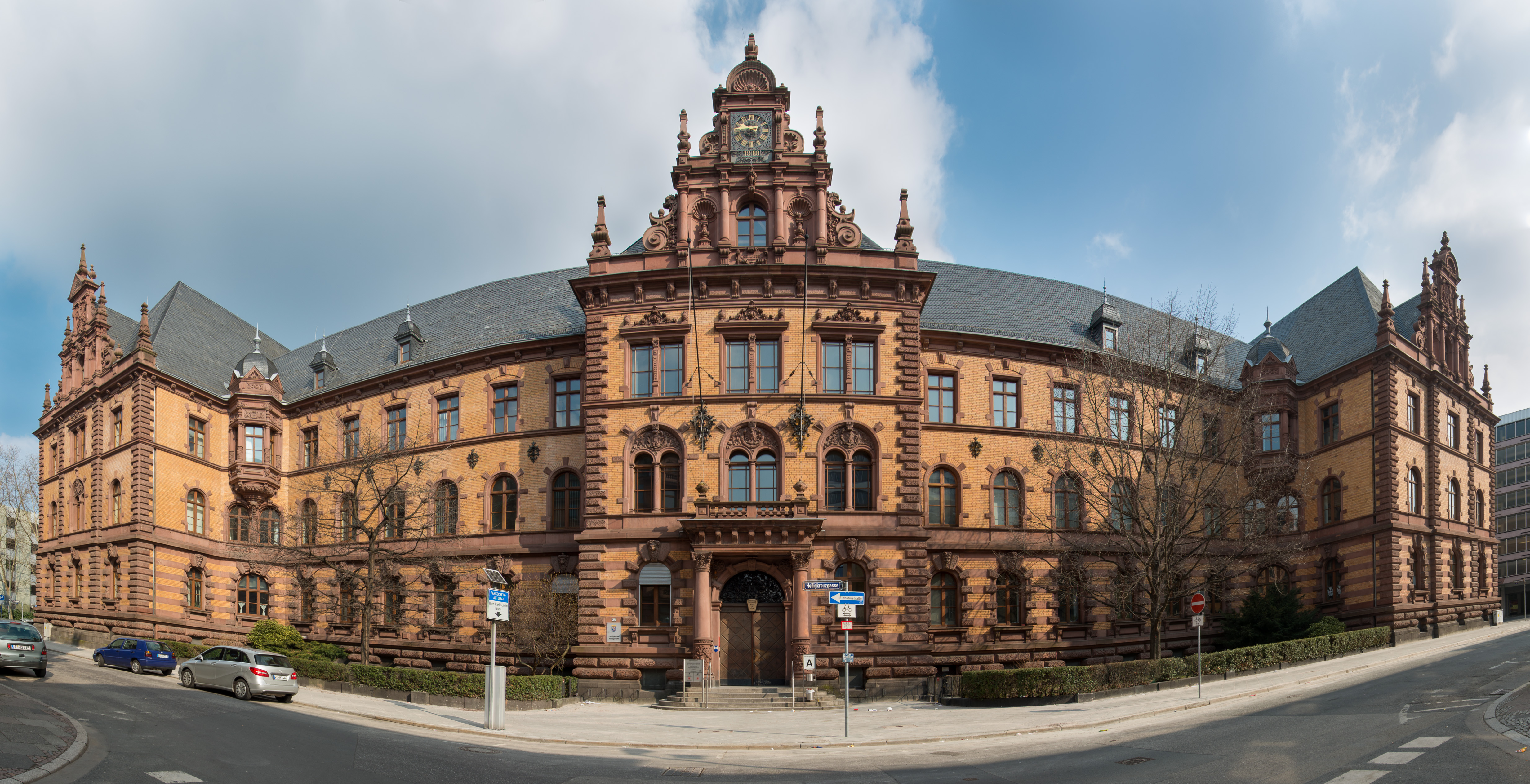 Frankfurt am Main, Heiligkreuzgasse 34, historic court building of the Neo-Renaissance (1884-1889). Cultural monument of the city.